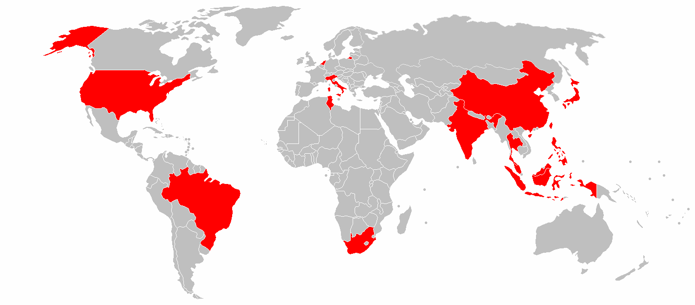 Mitsubishi Motors Corporation global locations : factories and facilities